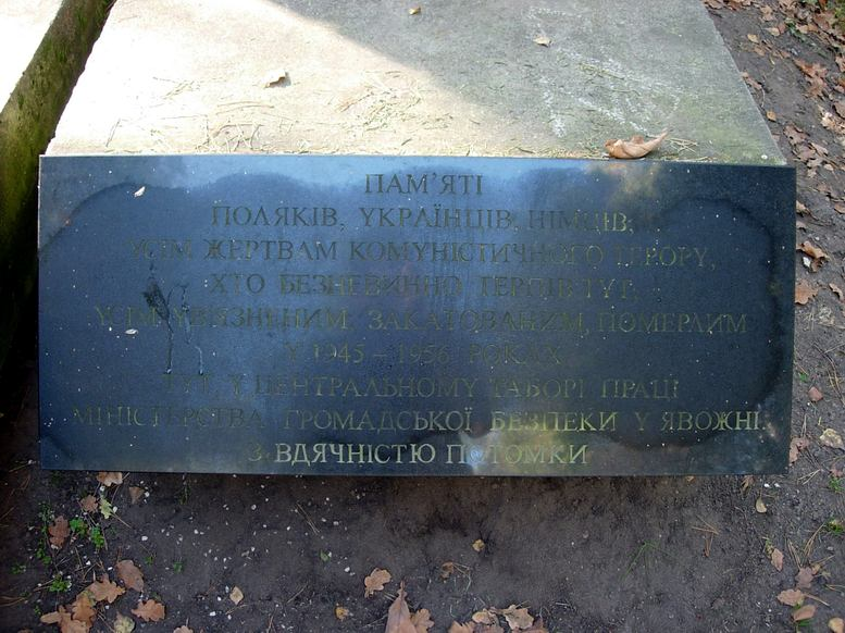 Jaworzno memorial plate